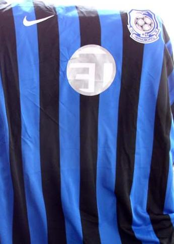 FC Chernomorets Odessa home tshirt with "Euphoria Trading FZE" logo.